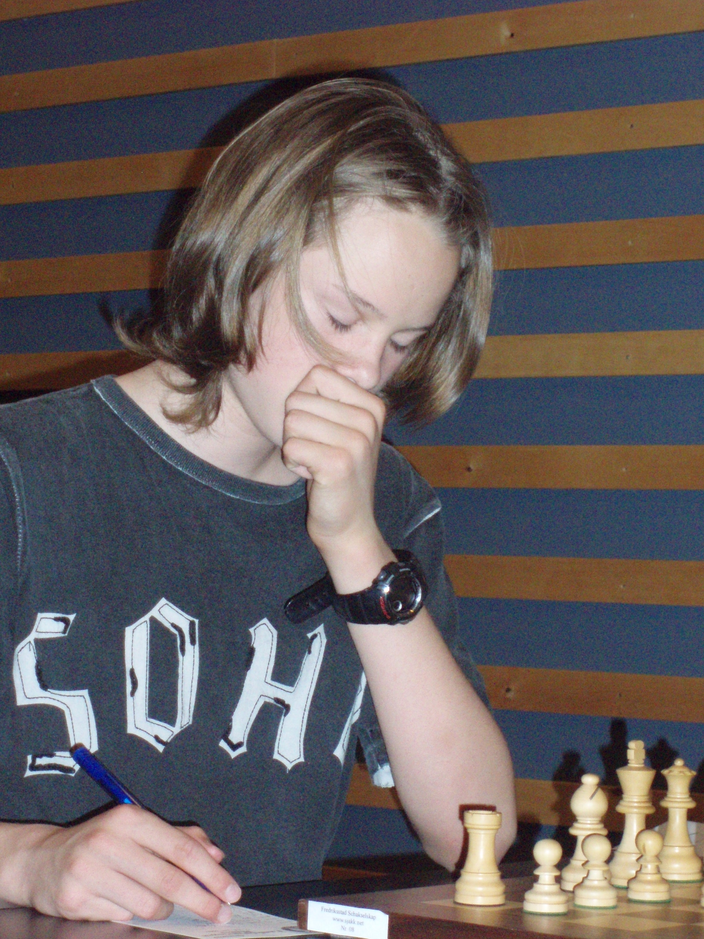 Frode Olav Olsen Urkedal at The norwegian Chess Championship Hamar 2007